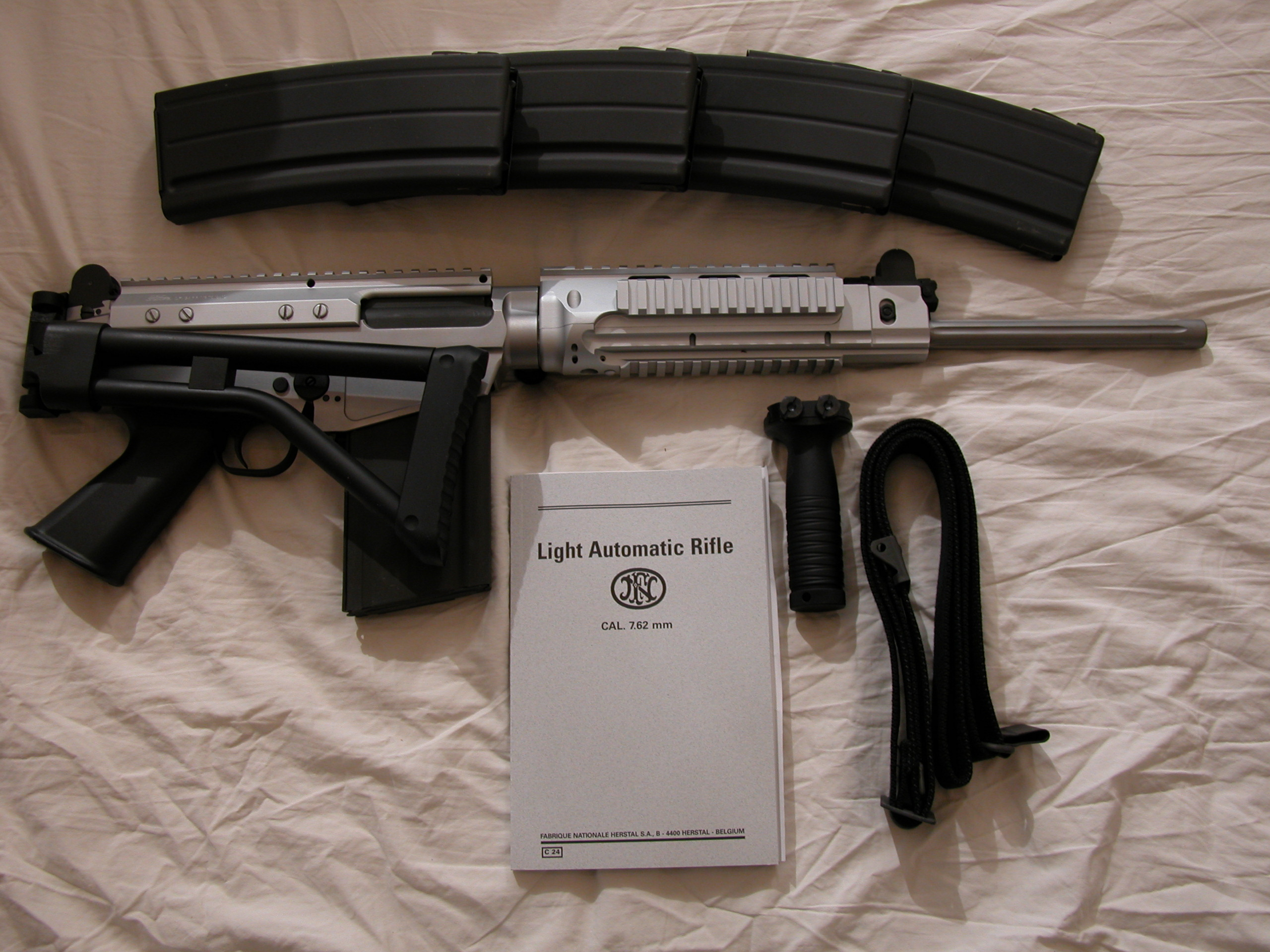 a photo of a modern Para-style FAL. Author: Karl Muth